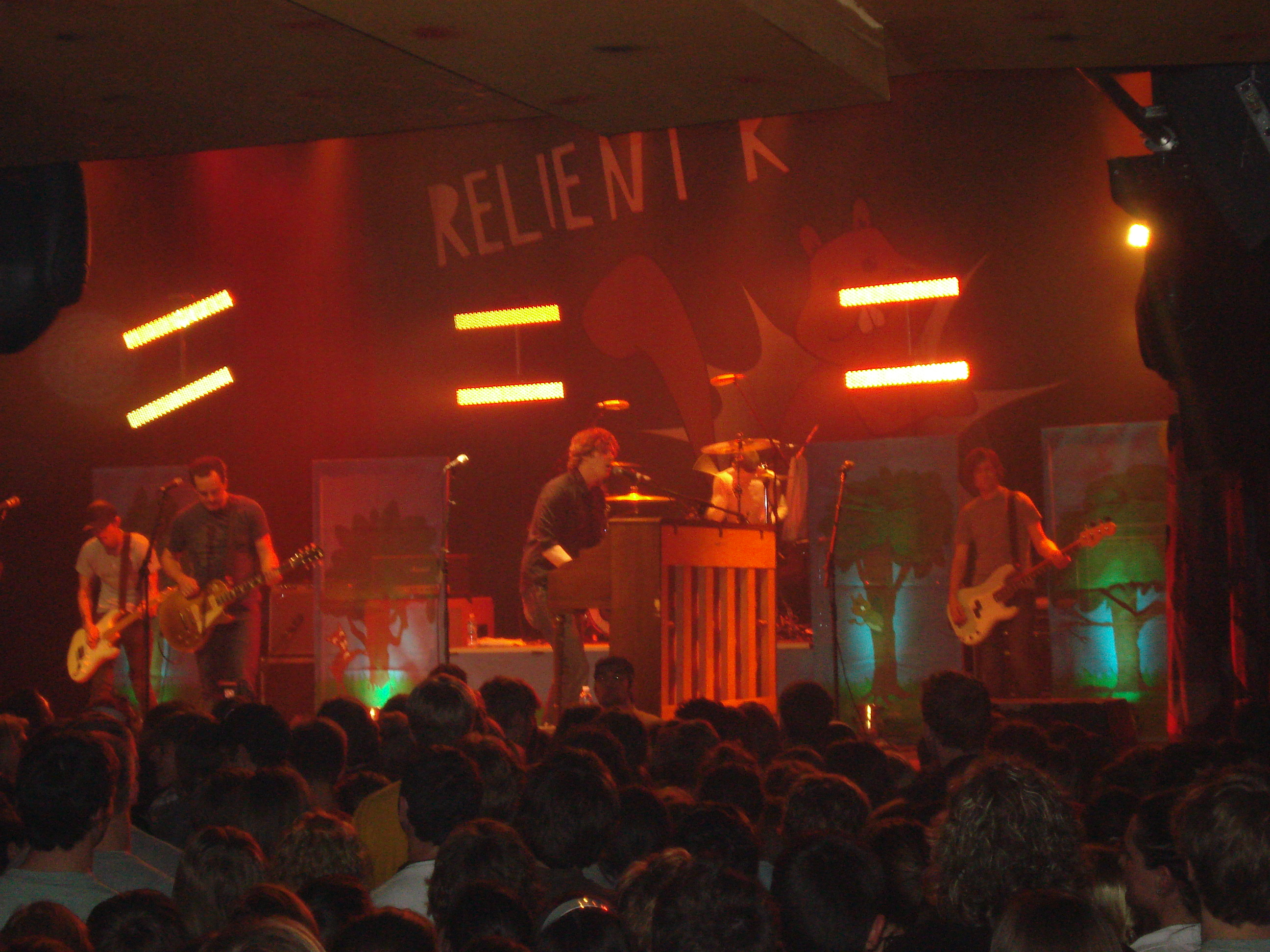 Photo of entire band Relient K at show at House of Blues in Cleveland, OH on May 3, 2007